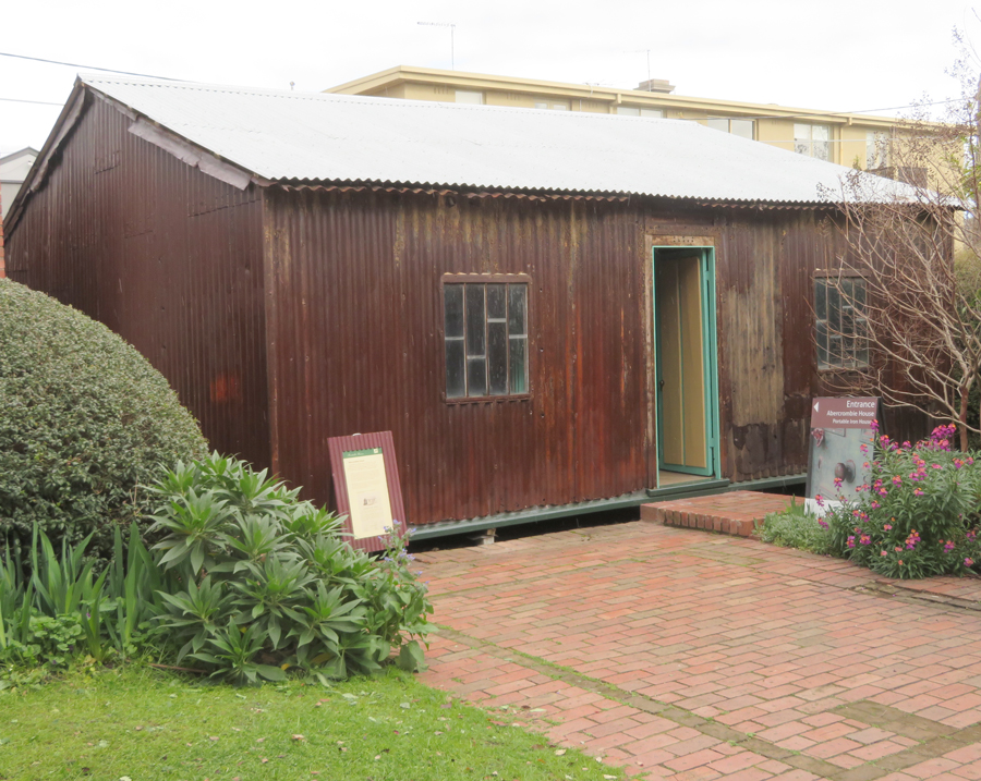 Portable Iron house, erected 1853 - back door & foundation of outdoor kitchen